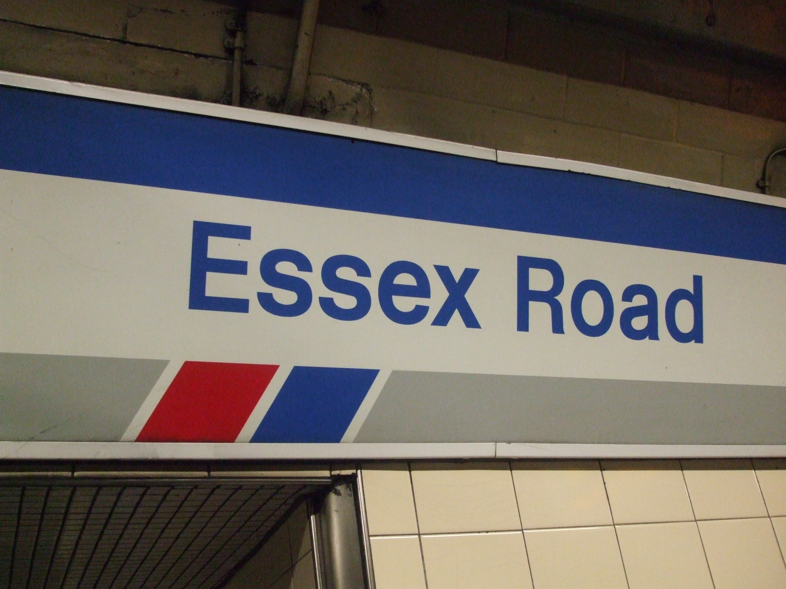 Essex Road station platform signage, in the old Network SouthEast style of the late 1980s